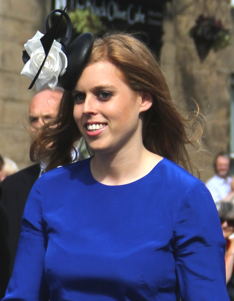 Princess Beatrice at the wedding of Lady Melissa Percy, cropped